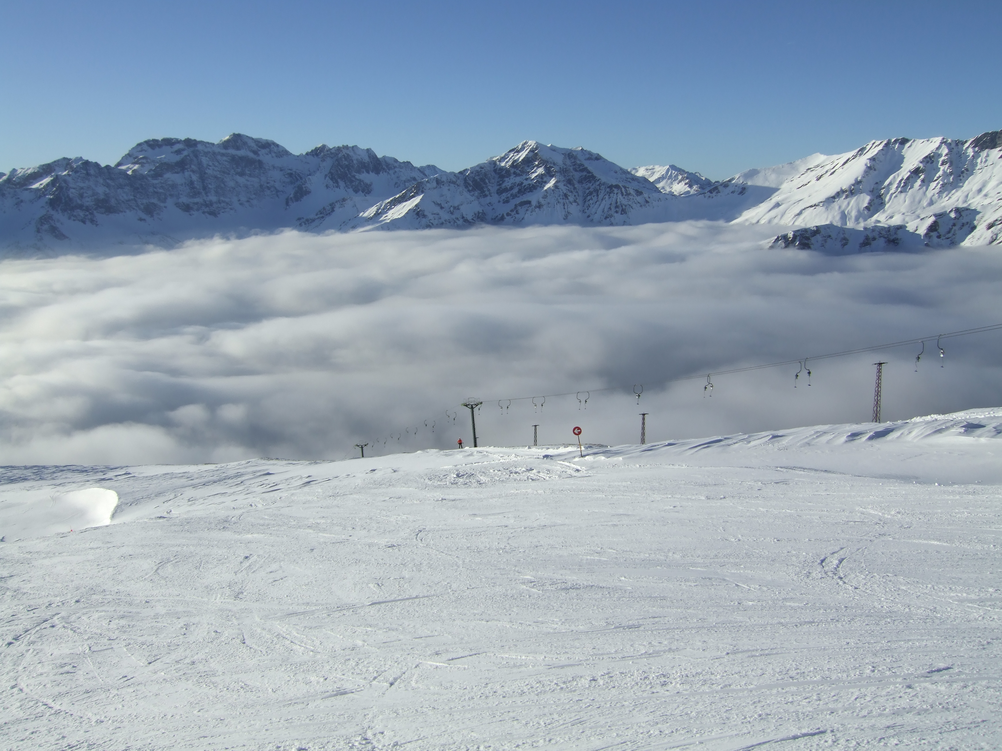 Over the clouds on Mount Jafferau